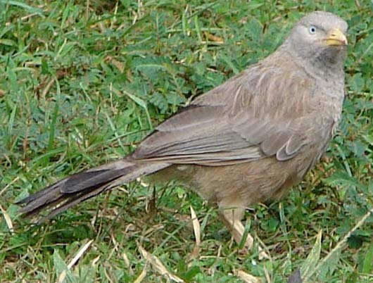 Turdoides affinis - Yellow billed Babbler